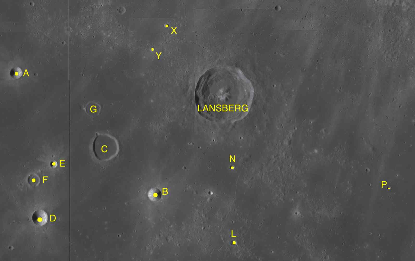 Parts of the charts LAC-57, LAC-58, LAC-75, LAC-76